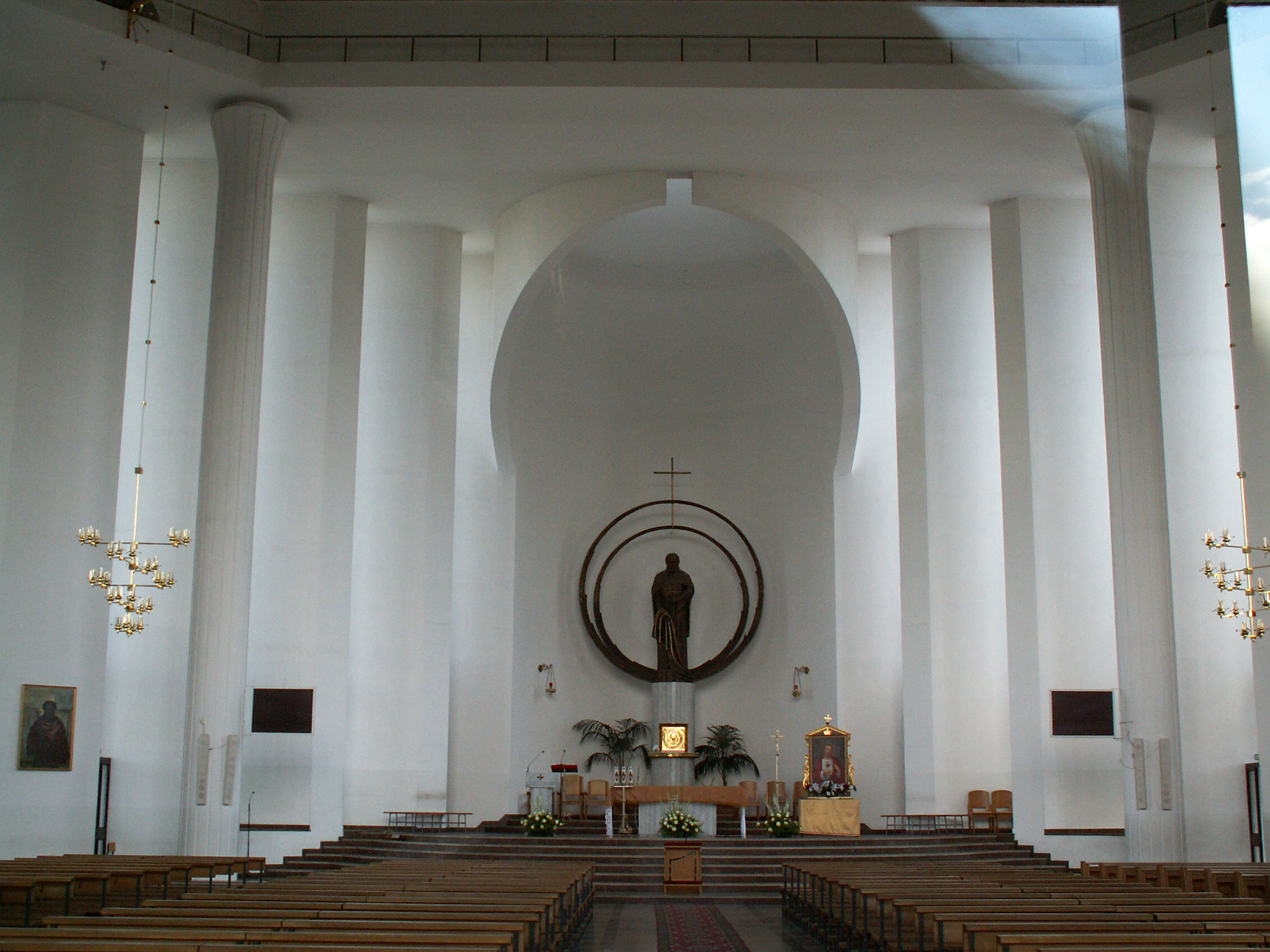 Church of StBrother Albert (in), os. Dywizjonu 303, Krakow Nowa Huta